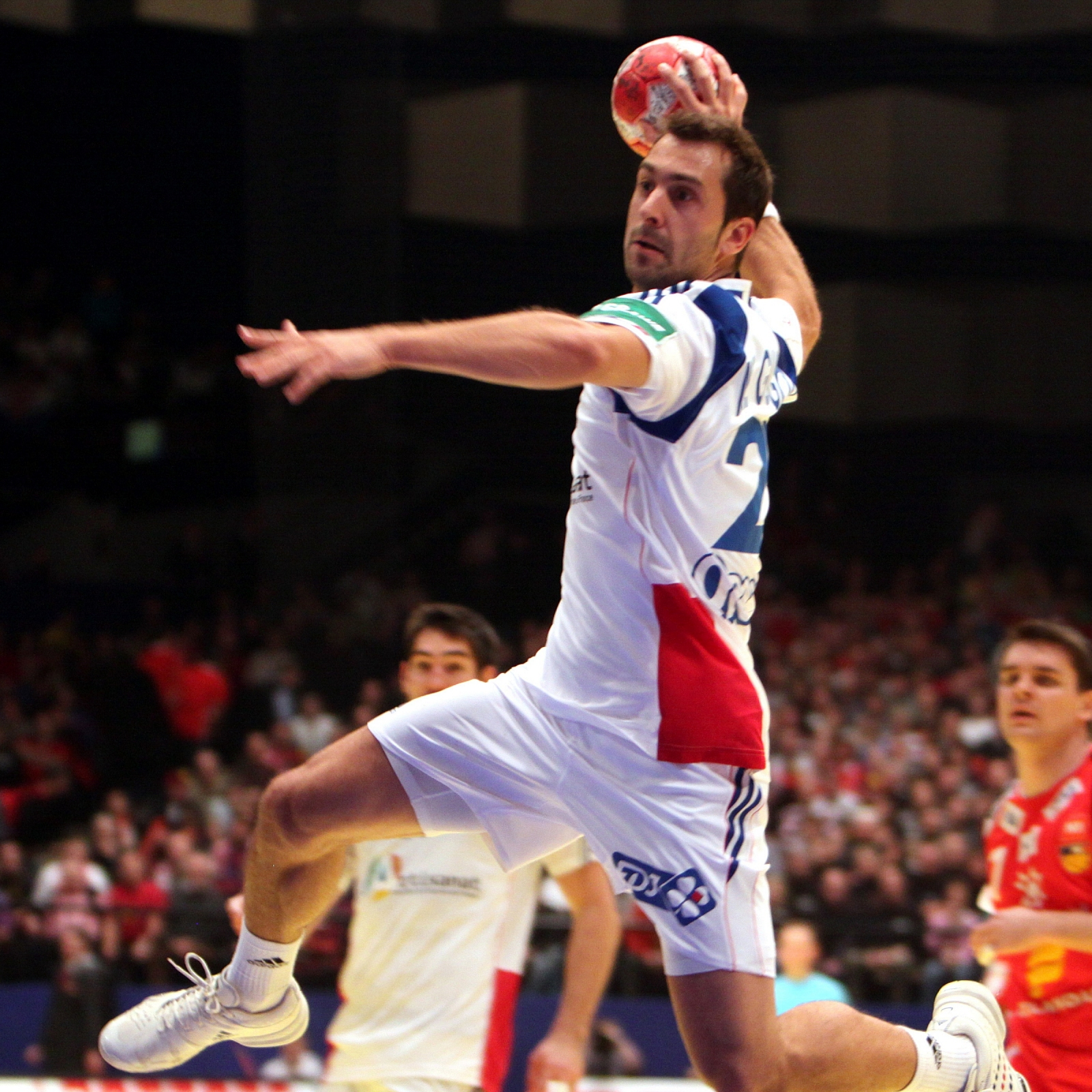 Michaël Guigou (Montpellier HB), France national handball team